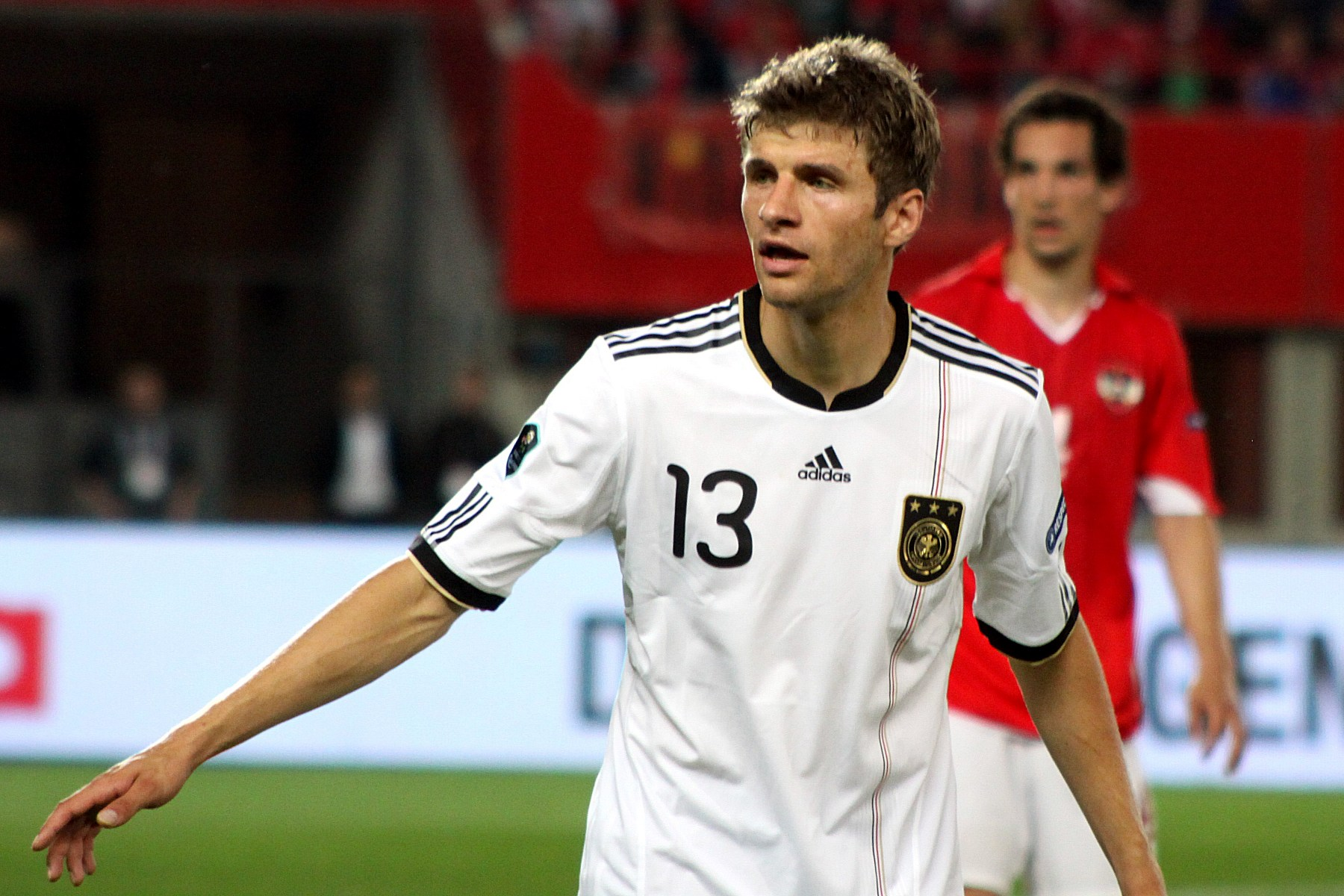 Thomas Müller (FC Bayern Munich), german national football team